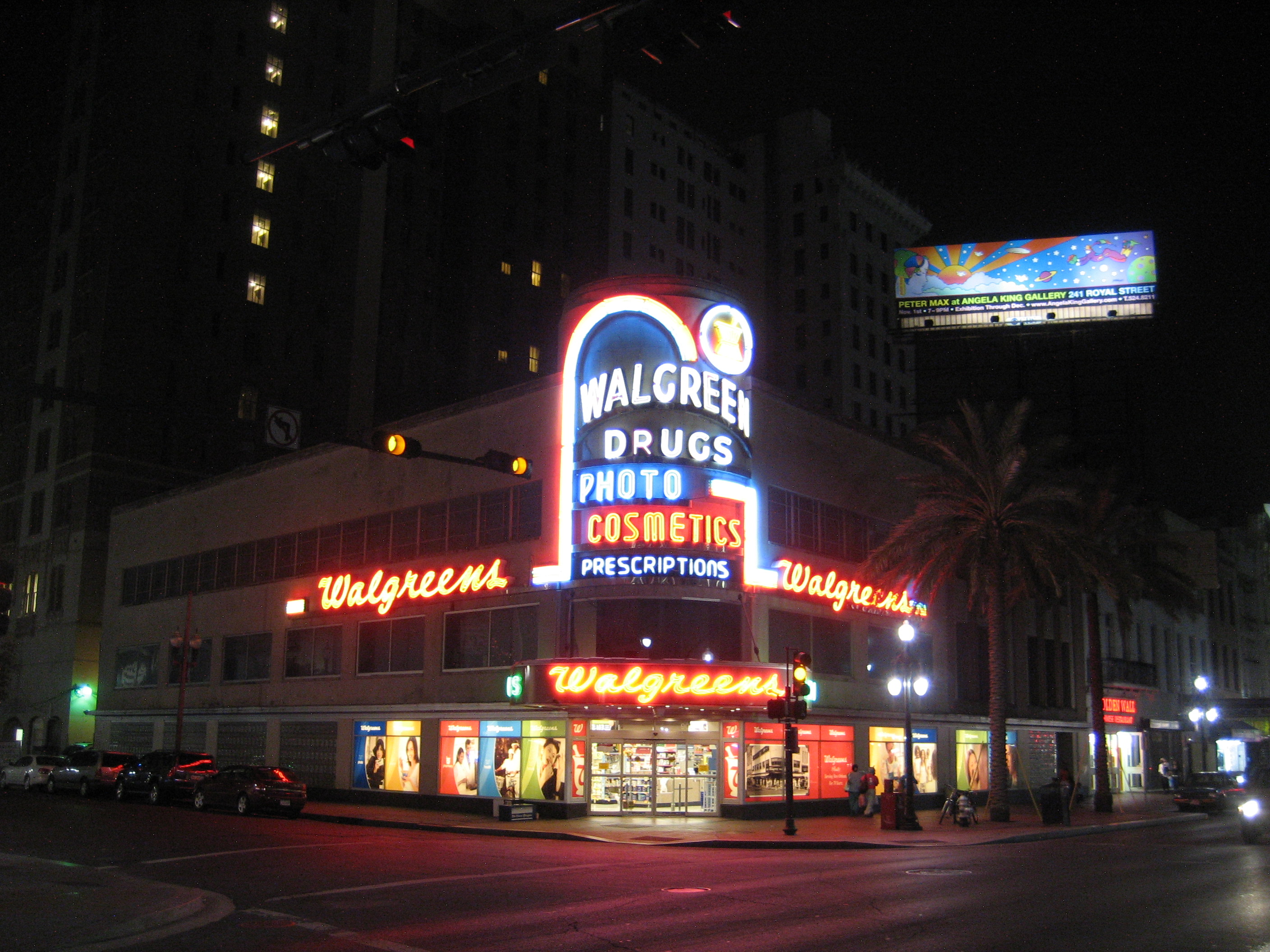 New Orleans: Canal Street Walgreens at night.